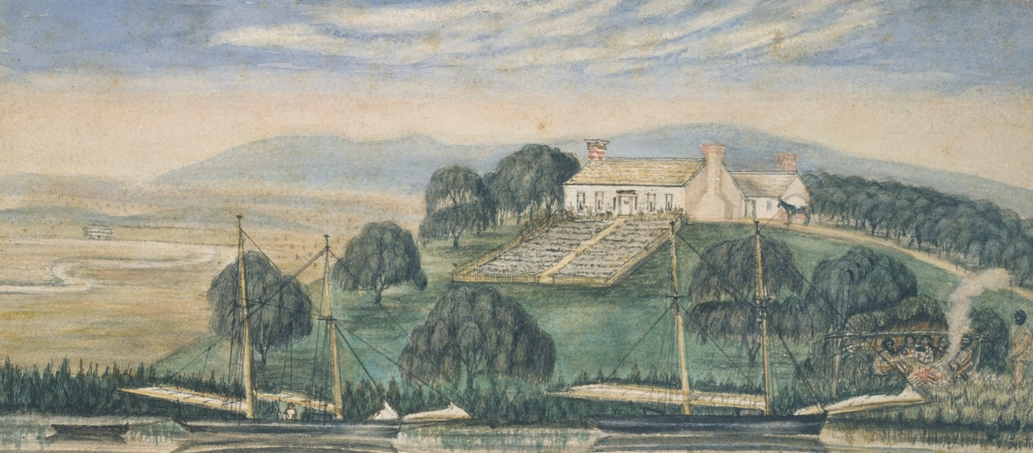 John Batman's House, watercolor, pencil, pen and ink ; 10.1 x 22.0 cm